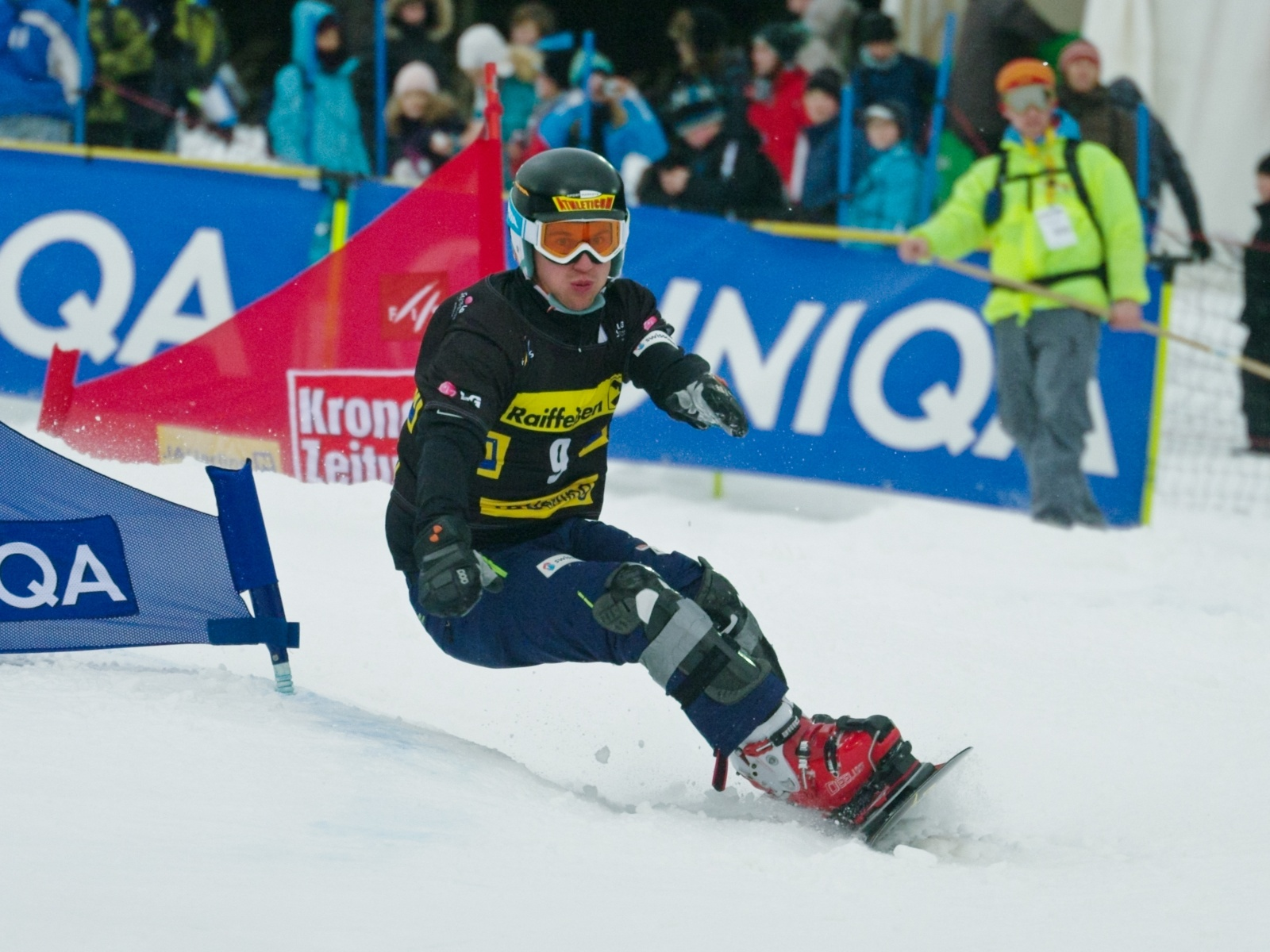 Swiss snowboarder Nevin Galmarini in the qualification round of the World Cup Parallel Slalom at the Jauerling in Austria on 13 January 2012.